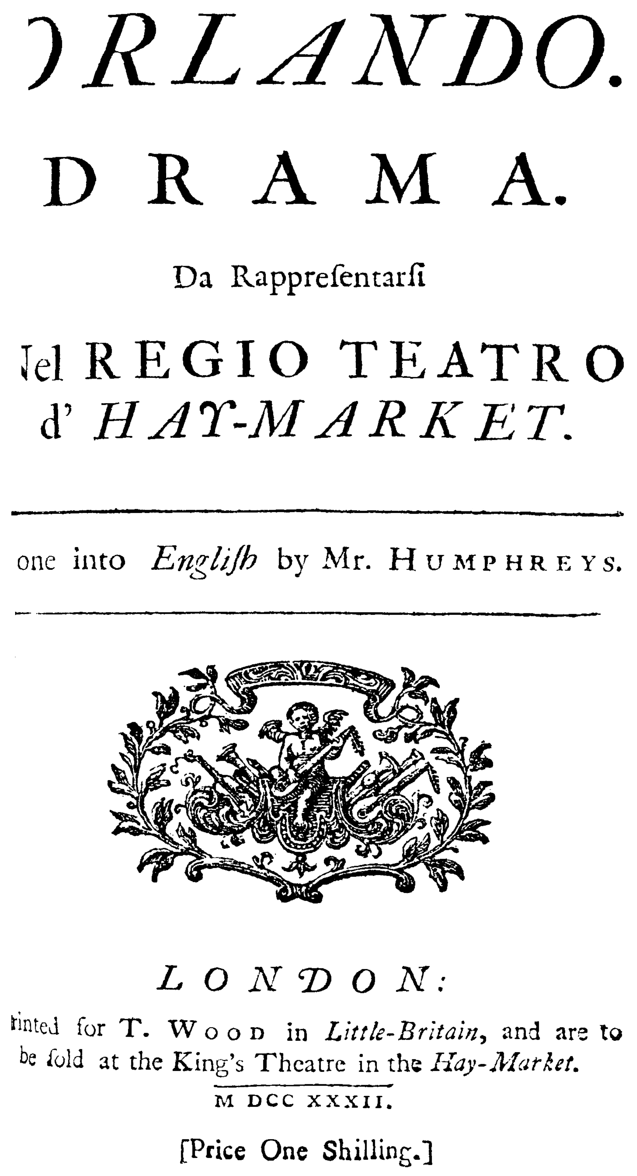 Georg Friedrich Händel - Orlando - title page of the libretto - London 1732